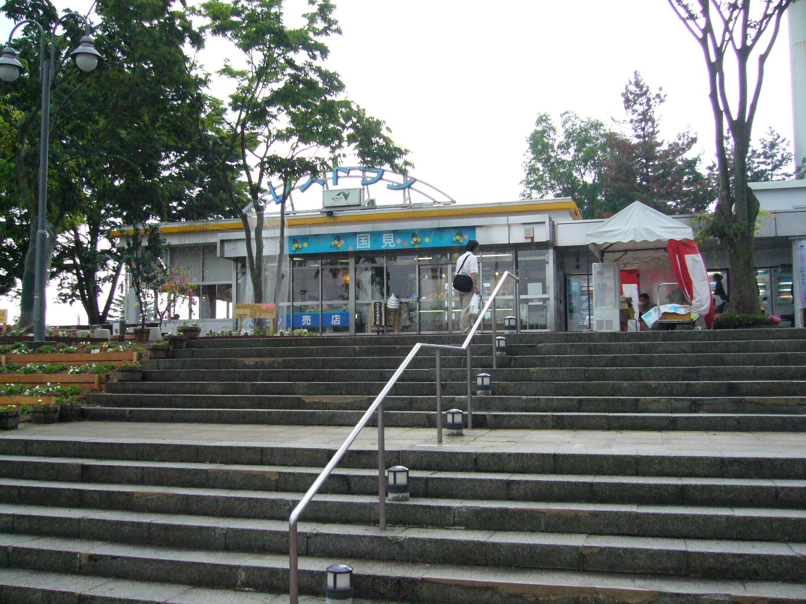 Kunimi Service Area on the Tohoku Expressway in Kunimi Town, Fukushima Prefecture, Japan